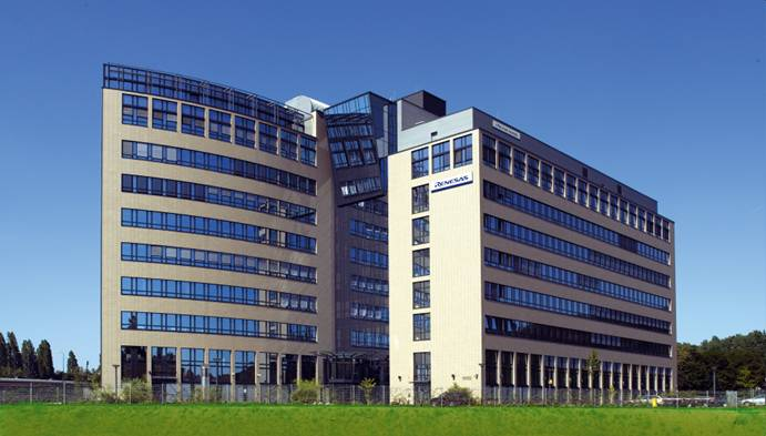 Renesas Elecotronics Europe - European Business Operations Centre, Düsseldorf, Germany